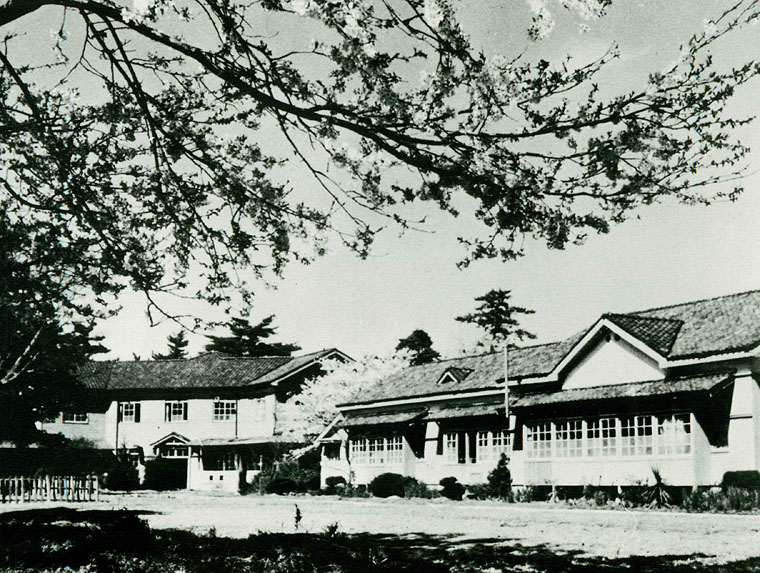 Chiba Institute of Technology old school building. Machida, Tokyo campus,1942